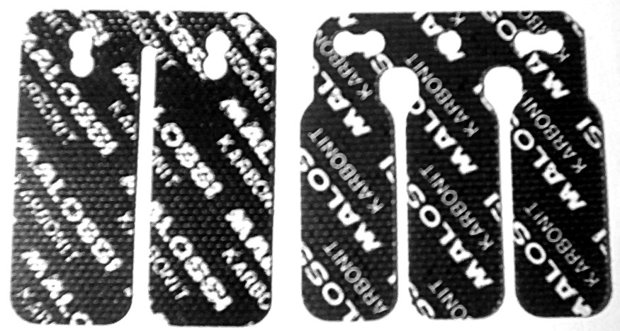 A pair of Malossi reed valve blades made from carbon fibre. Picture taken and released into the public domain by User:Kallemax.